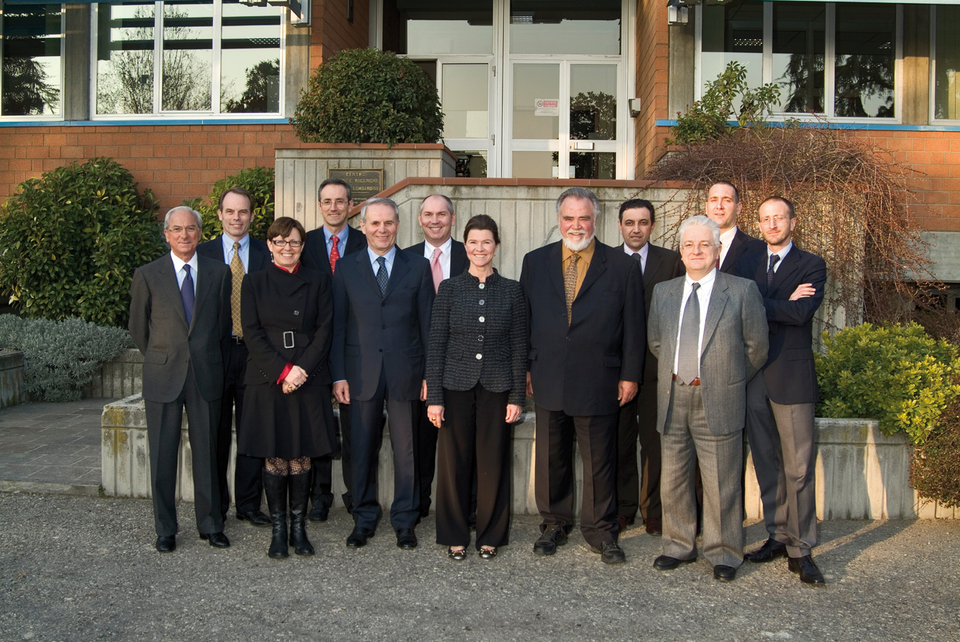 Herbert V. Kohler Jr, CEO Chairman and President of the Kohler Group, accompanied by his wife Nathalie Black, visit the Lombardini facilities. In the middle photo, together with Gianni Borghi and the current Executive team in front of the R&D building.